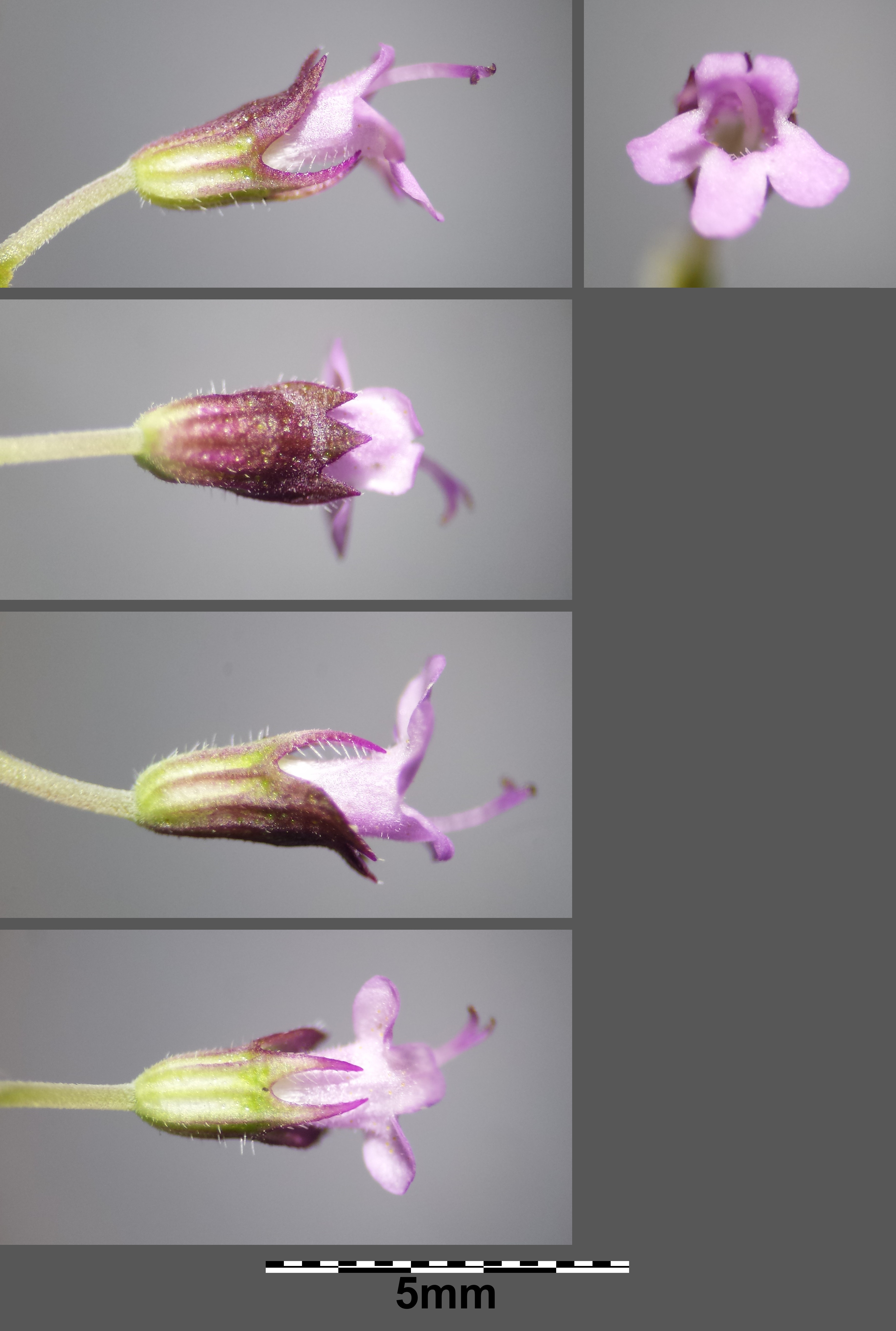 Flower (♀ individual) Taxonym: Thymus pulegioides subsp. pulegioides ss Fischer et al. EfÖLS 2008 ISBN 978-3-85474-187-9 Location: near Komau, district Freistadt, Upper Austria - ca. 850 m a.s.l. Habitat: slope